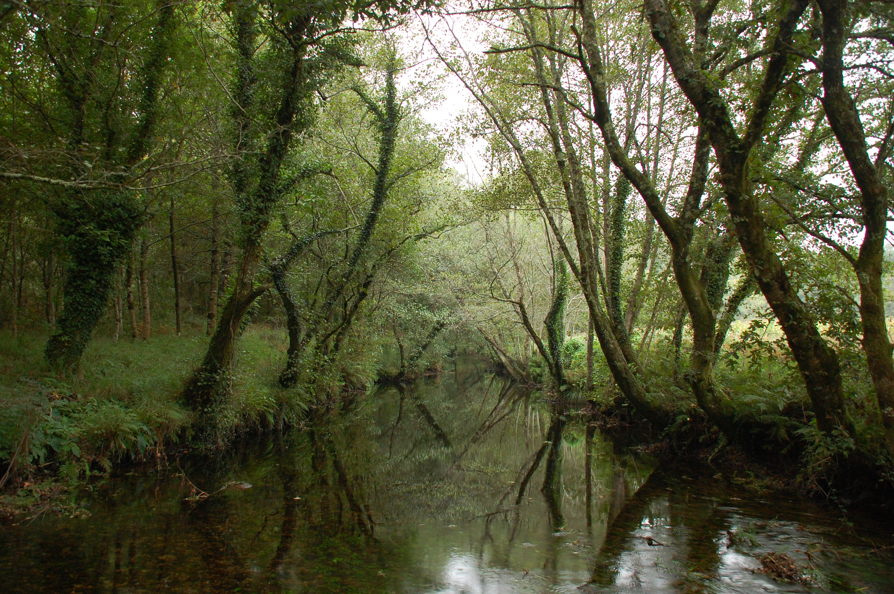 The Barcala River at Covas, Negreira